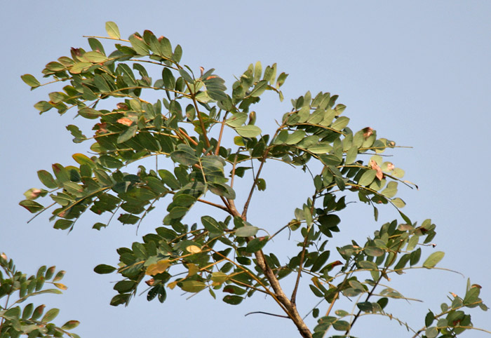 Doon Siris Albizia procera at Jayanti in Buxa Tiger Reserve in Jalpaiguri district of West Bengal, India.